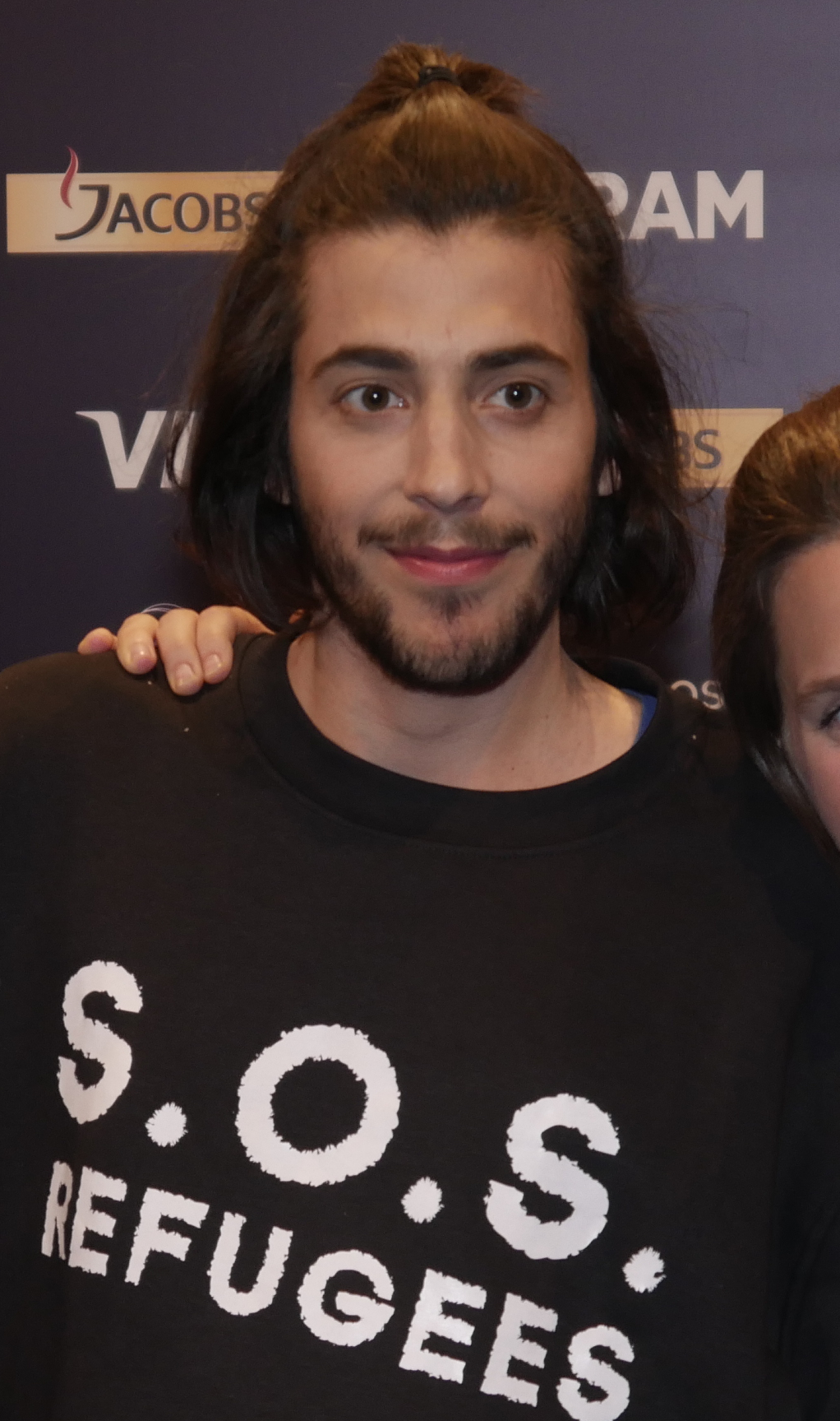 Salvador Sobral and Luisa Sobral, 9 May 2017